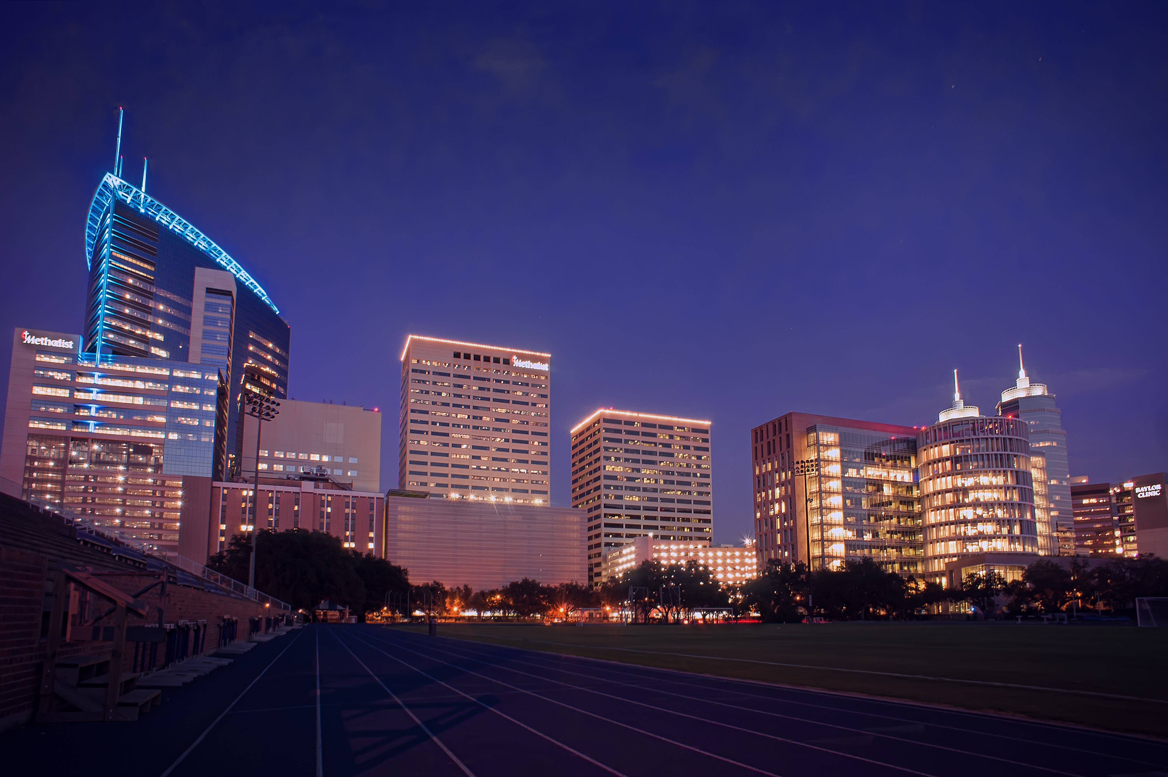 Houston, TX